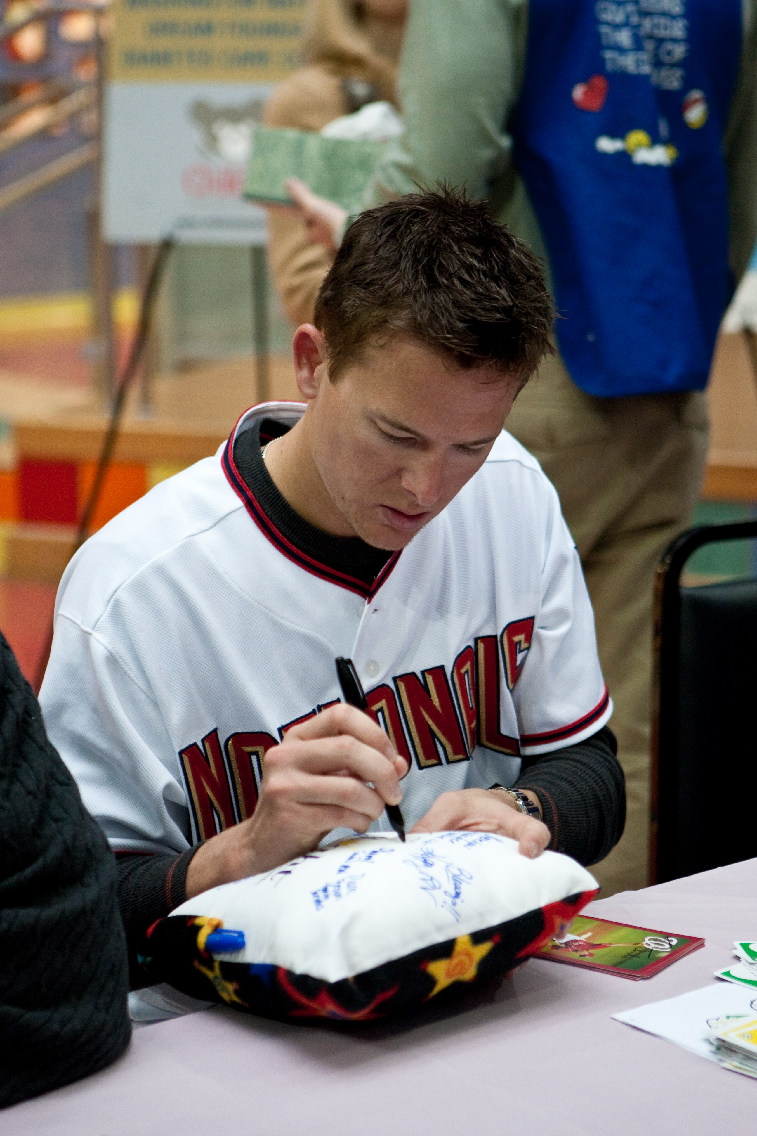 autographing an "autograph pillow"